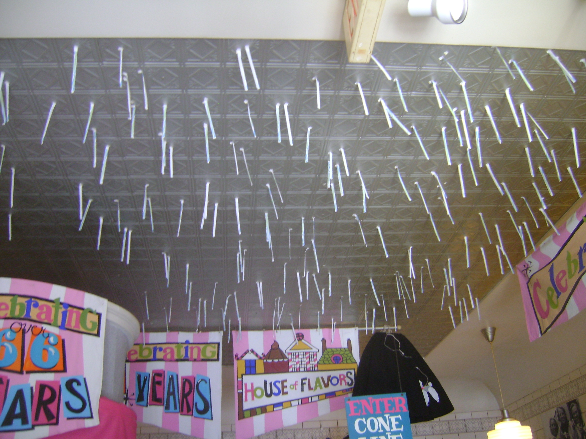 Straw casings simulation at Ludington ice cream parlor interior